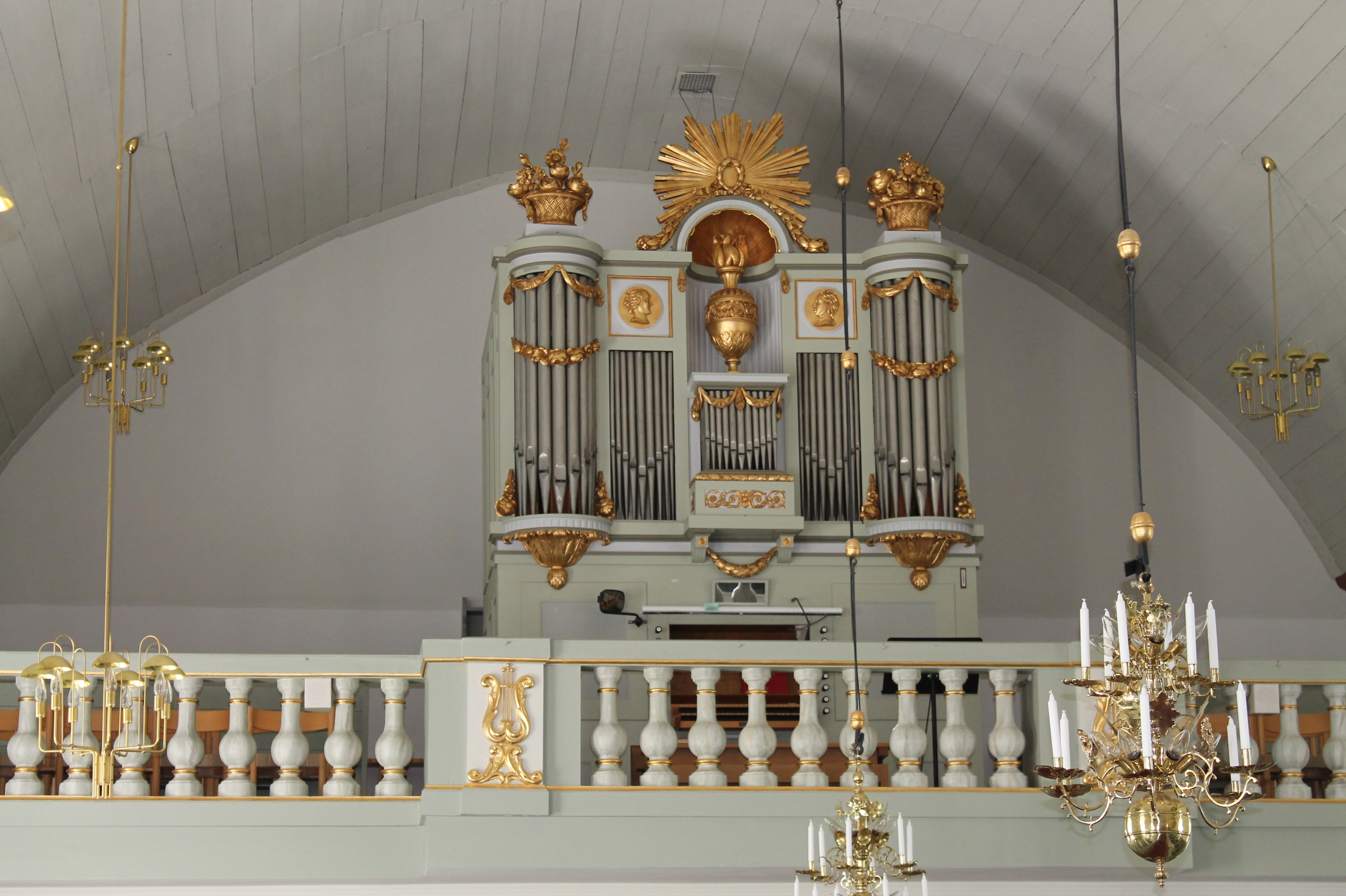 Söraby Church.The organ facade and balcony is Gustavian embossed with profane ornamentation is executed after drawings by Olof Tempelman 1785.